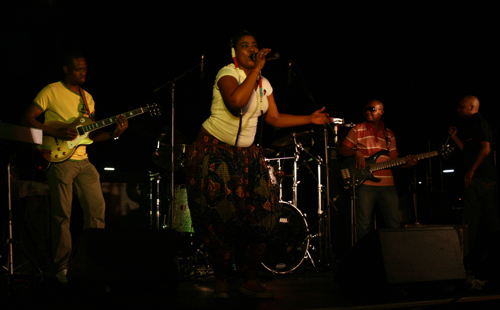 South African kwaito-band Bongo Maffin; performance at a presentation of the nine host-cities of the 2010 FIFA World Cup in South Africa during the UEFA Euro 2008 in Vienna (Austria).